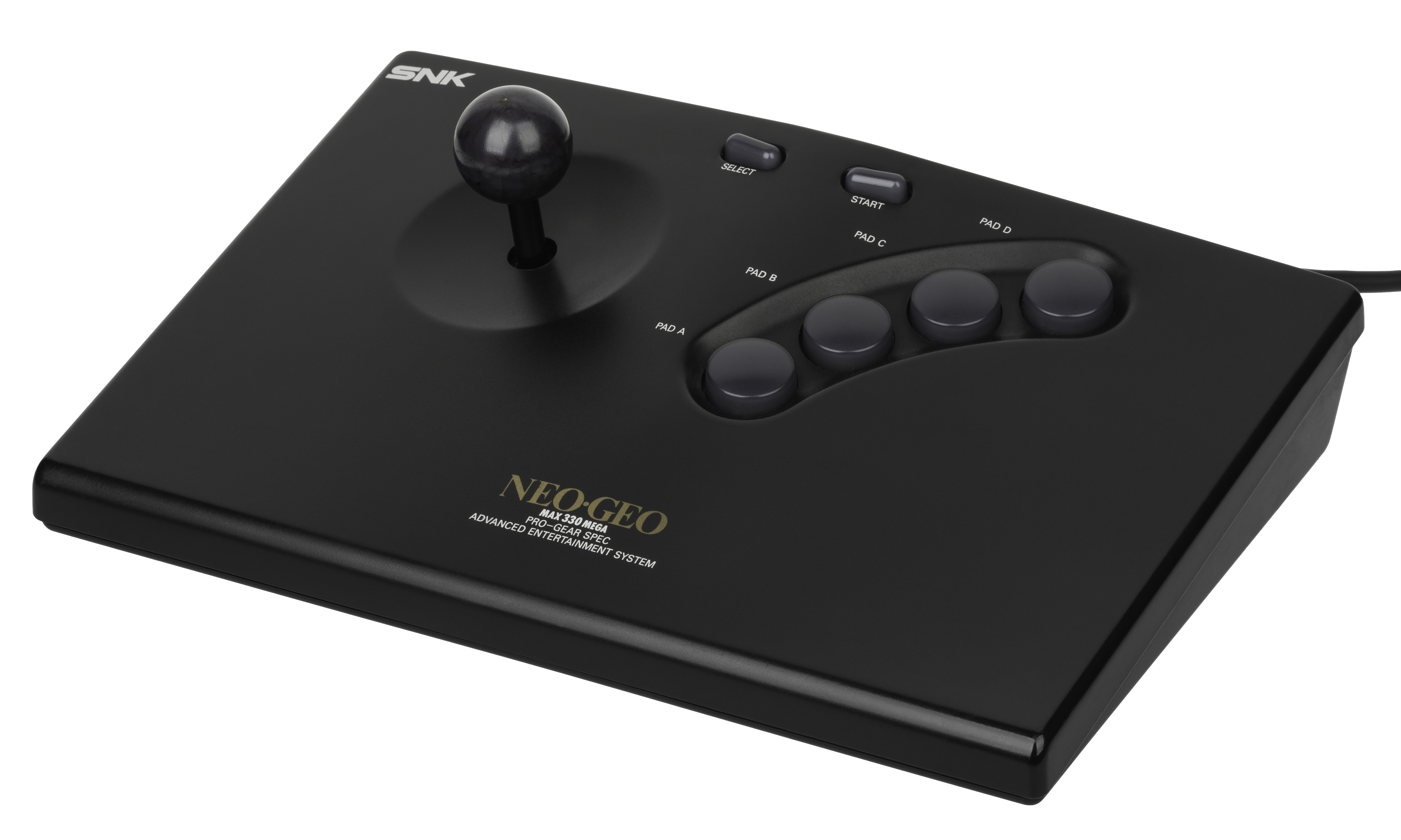 The controller for the Neo Geo AES (Advanced Entertainment System), a video game console released in the US in 1991. The Neo Geo AES was unique in that it was a niche system, marketed toward high-end consumers who wanted to play true arcade games in their home. The AES is merely a repackaged version of their Neo Geo MVS arcade system, where swappable games are stored on giant cartridges. The console was expensive, as were the games themselves, which could go for hundreds of dollars.